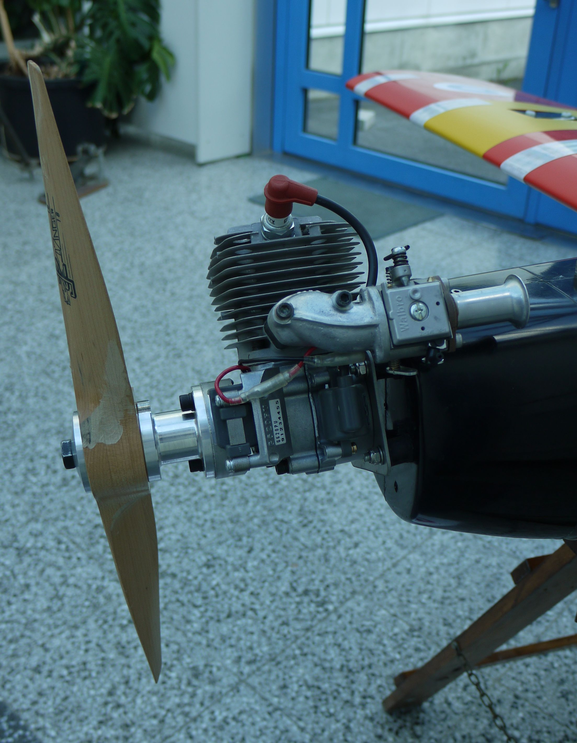 Zenoah G620PU engine of an Avartek AT-04 target drone